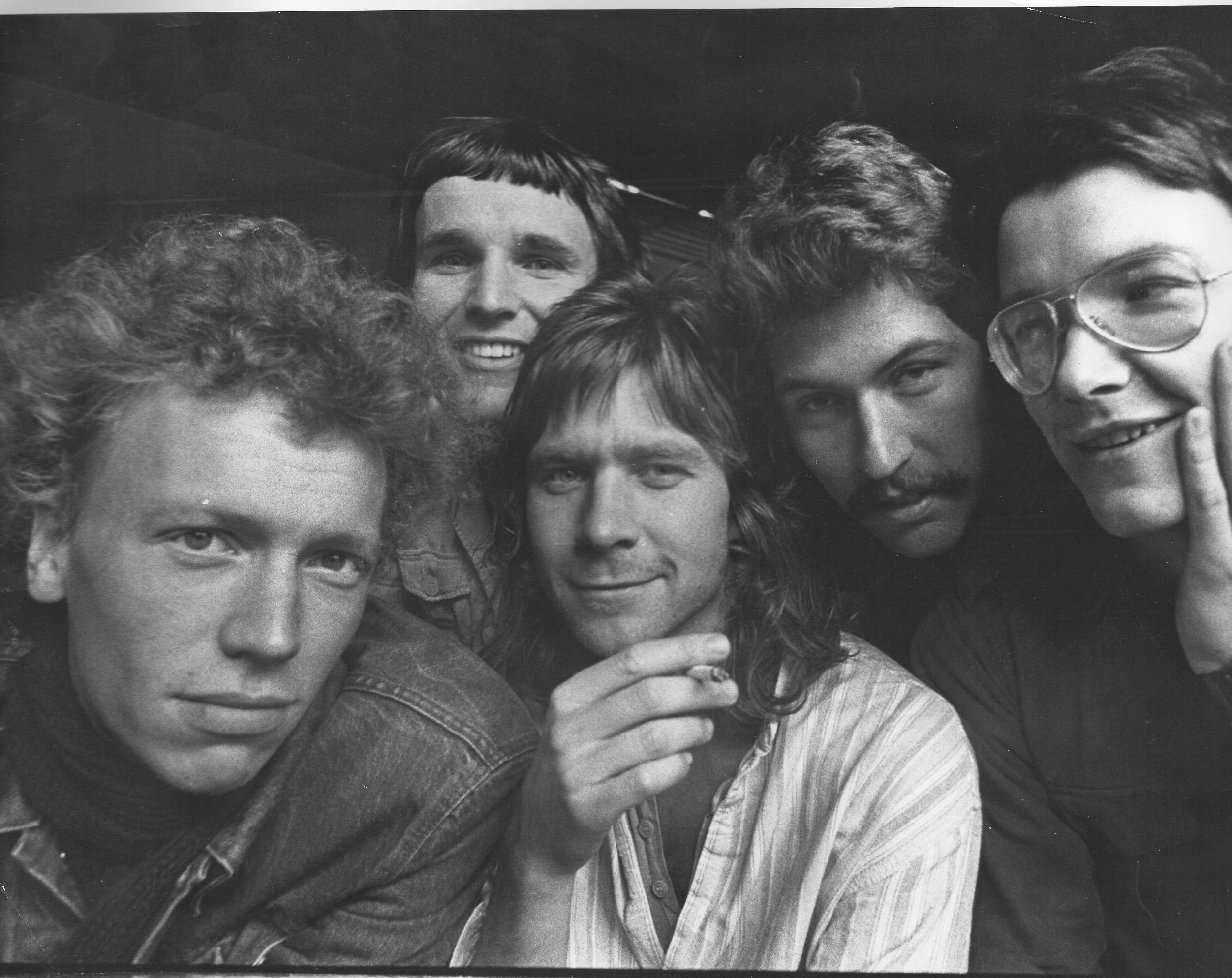 The Sun is Shining